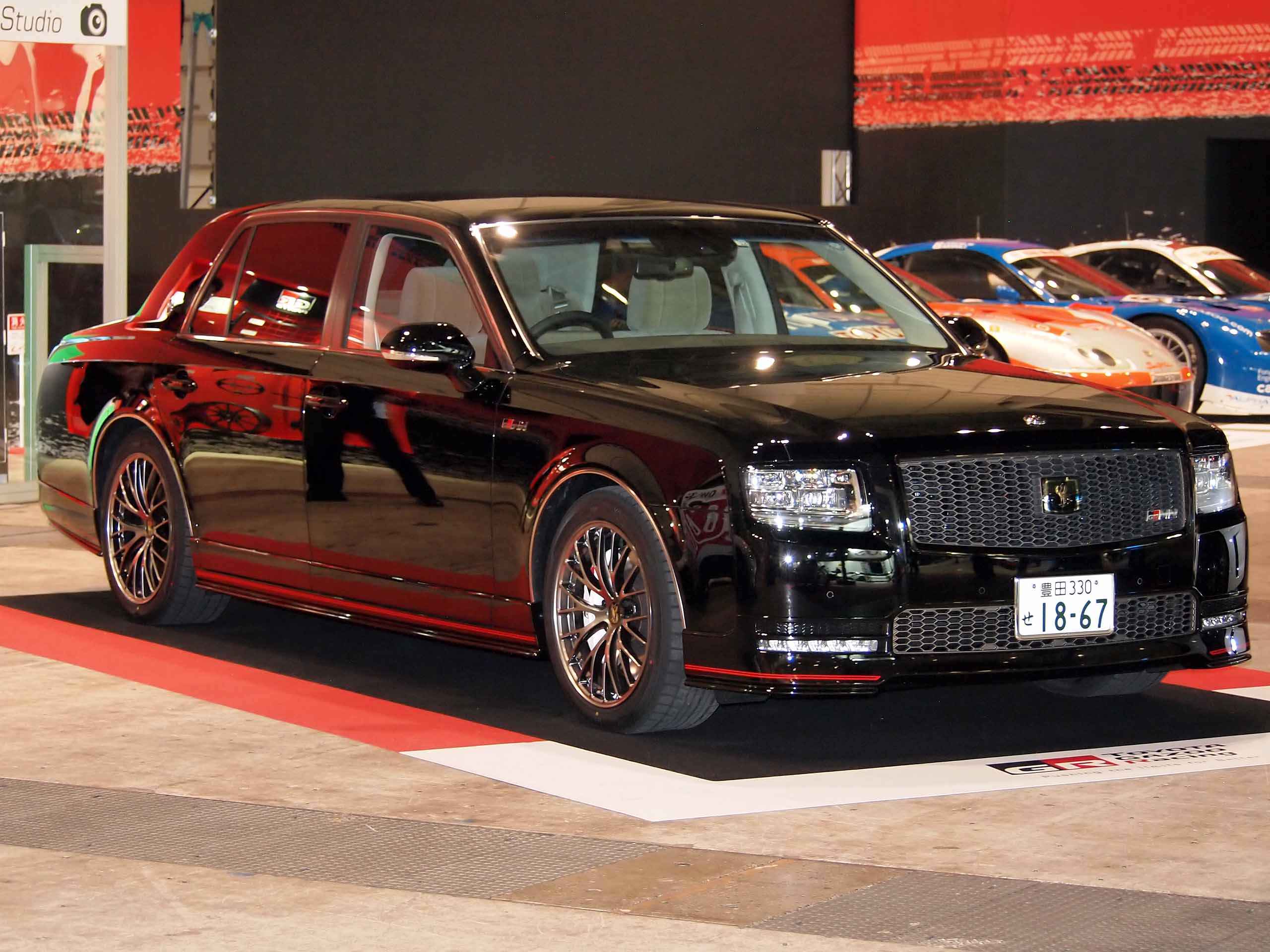 Toyota Century GRMN, president car for Toyota Motor, displayed at Tokyo Auto Salon 2019. License plate: ACY330 SE1867